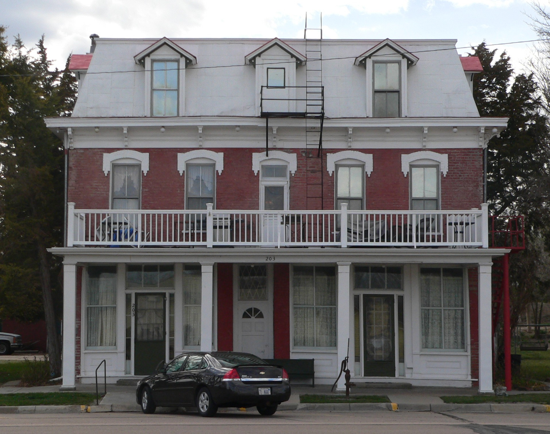 Cimarron Hotel, located at 203 N. Main Street in Cimarron, Kansas; seen from the east.